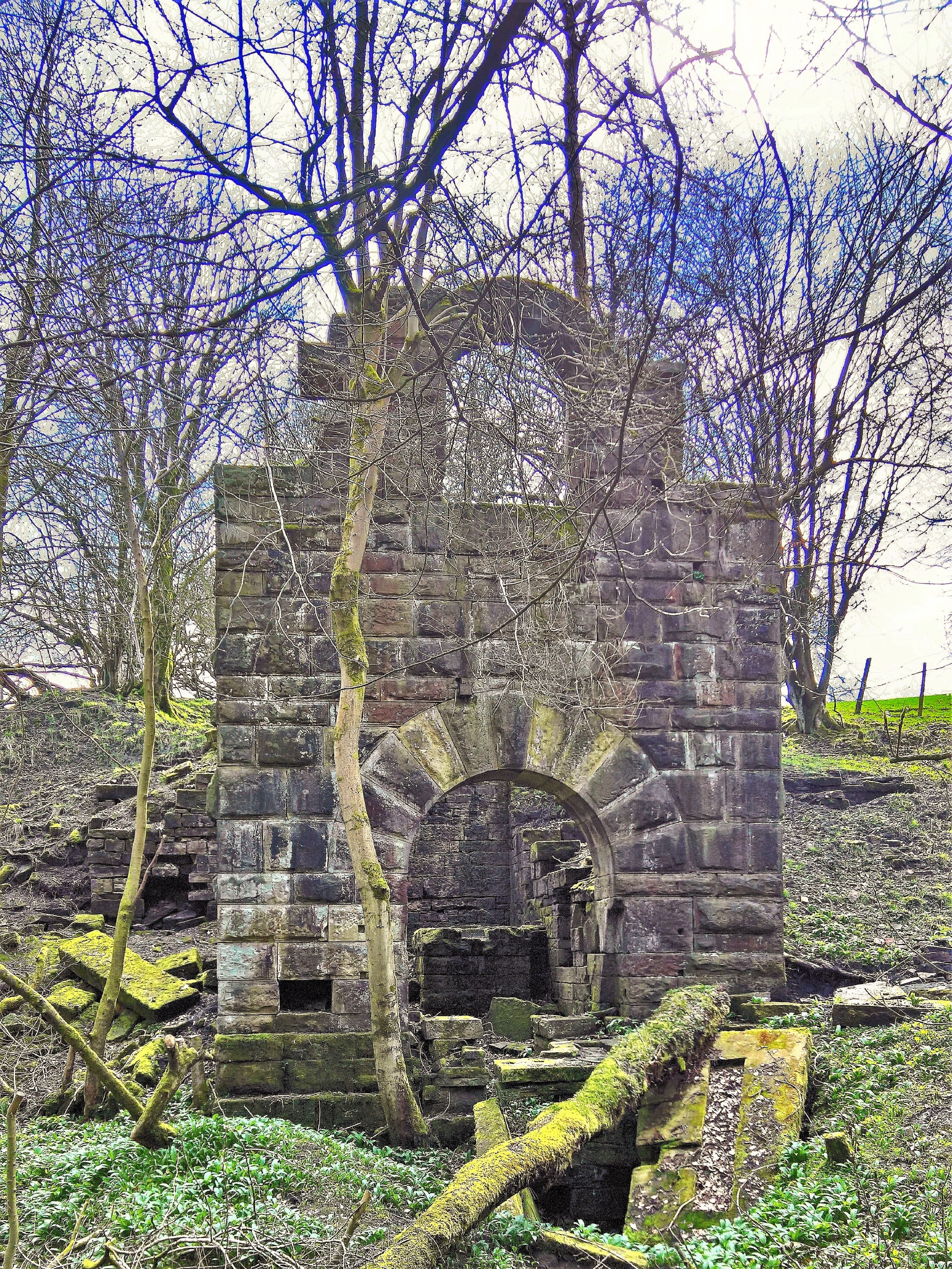 The remains of the pumping engine house of Fox Clough Colliery near Colne, Lancashire.